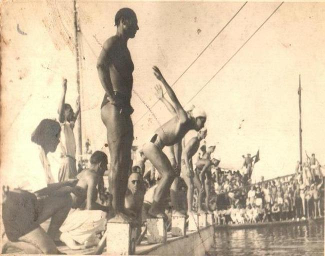 Gjate garave te notit